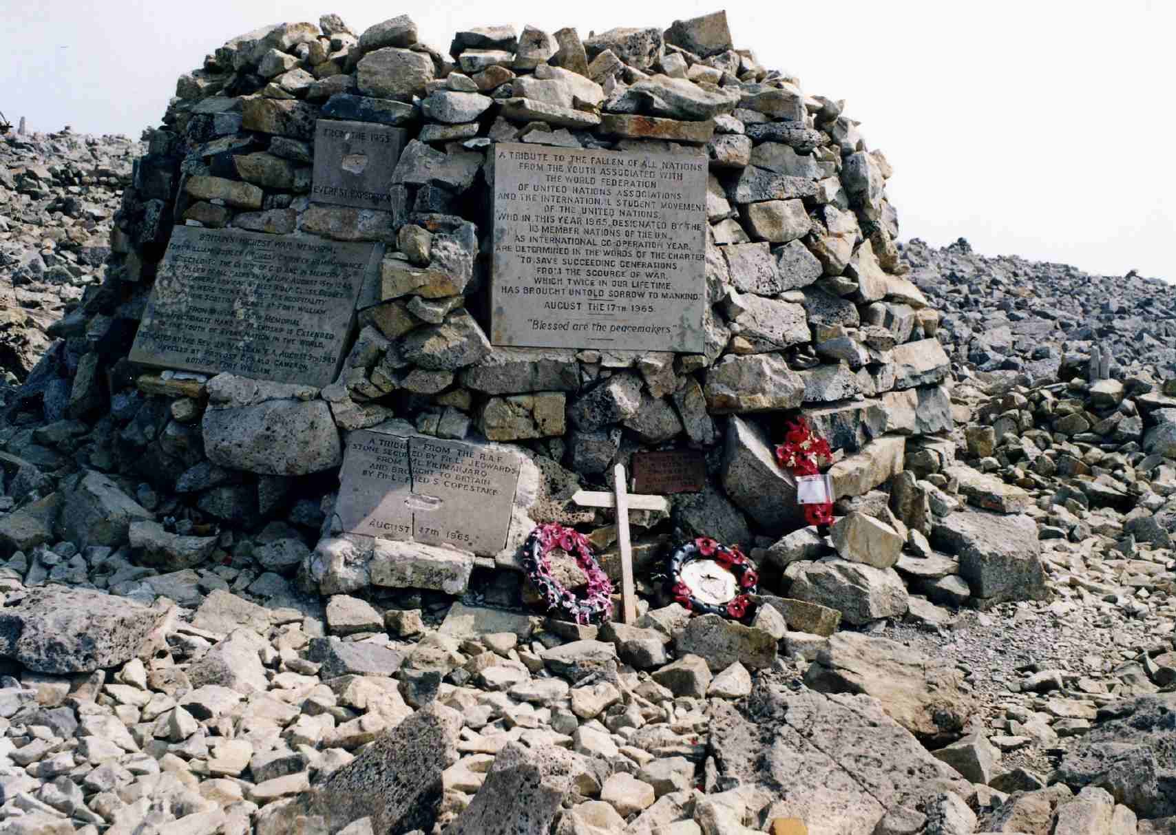 The War Memorial on the summit of Ben Nevis Personal photograph taken by Mick Knapton